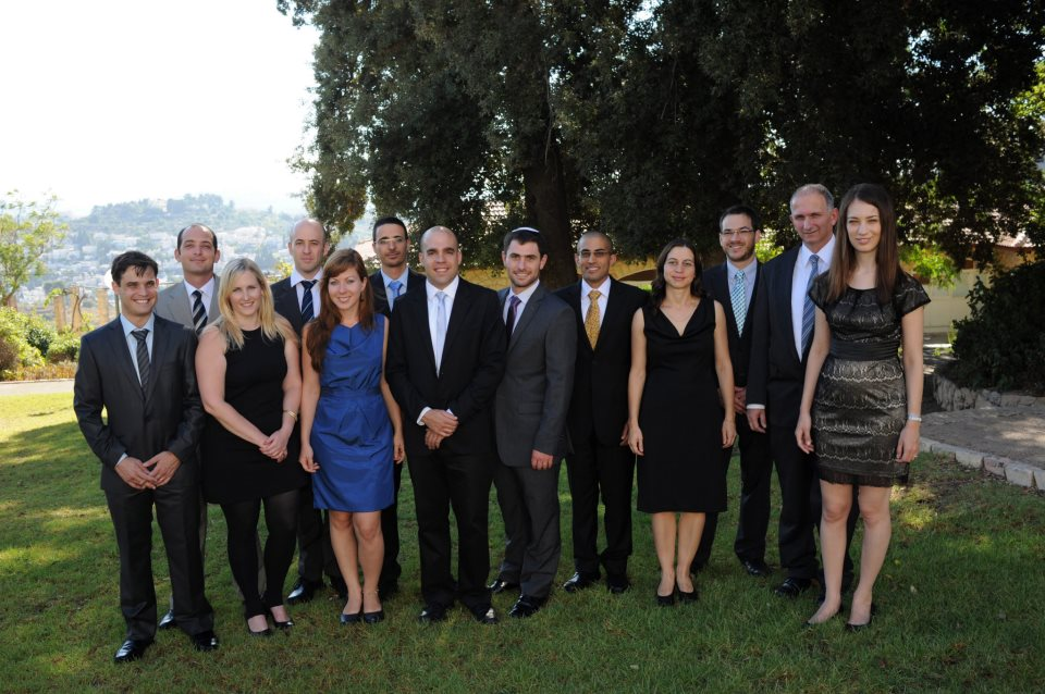 Course of economic representatives, August 2012.